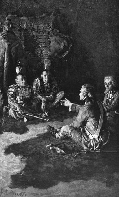 Depiction of a meeting between Paul Demeré and John Stuart, officers at Fort Loudoun, and Cherokee chiefs at Chota in 1759.